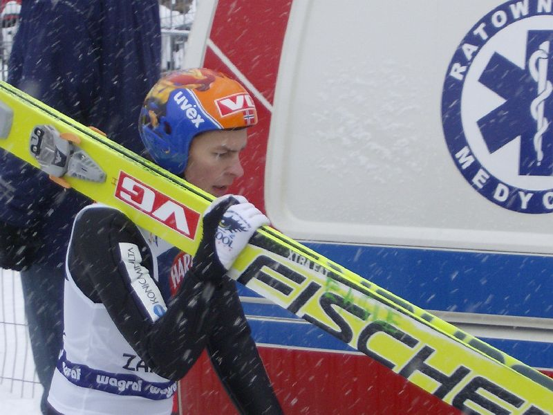 ski jumper Anders Jacobsen from Norway during the World Cup in Zakopane on 27-1-2008